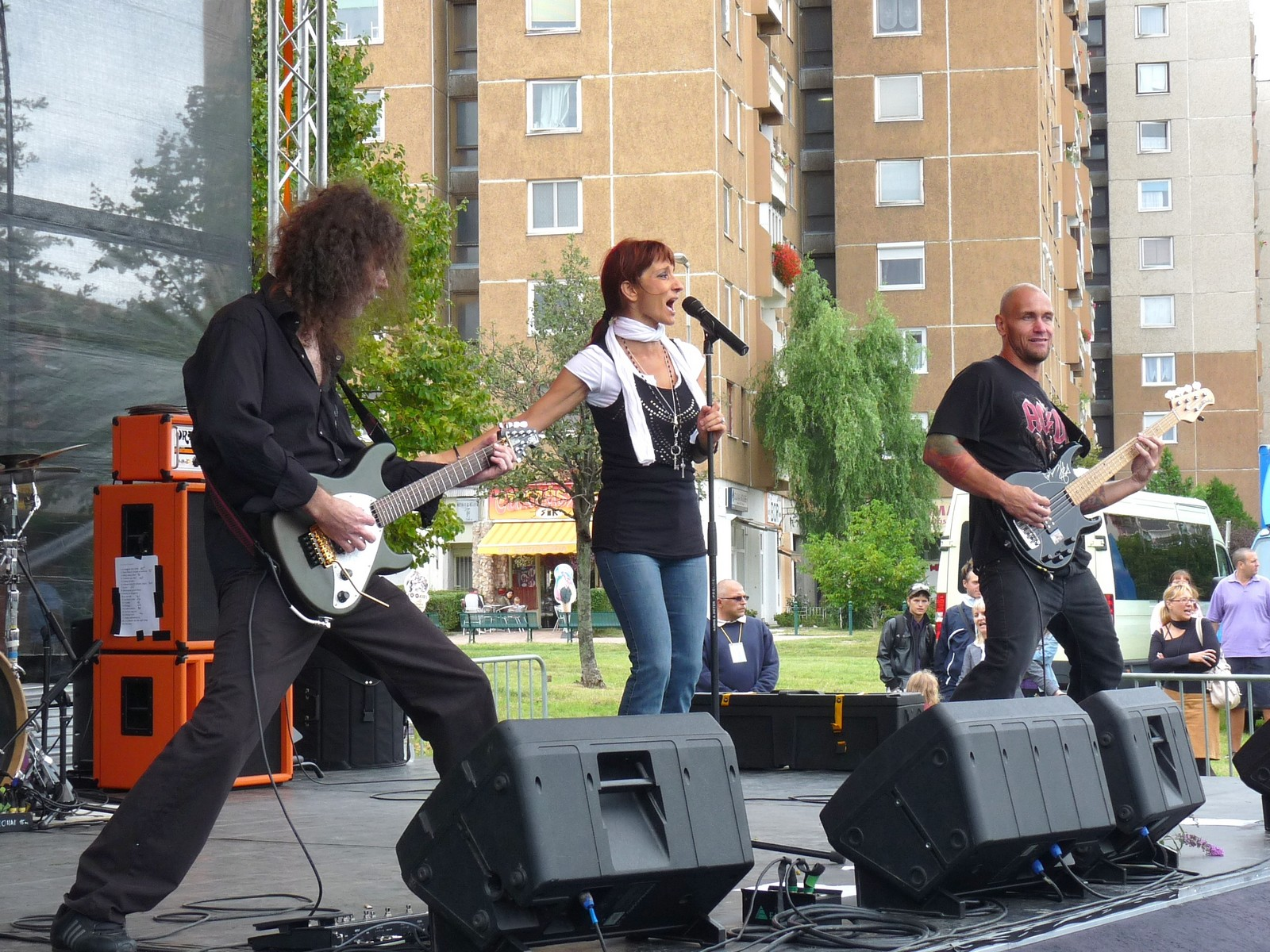 Ildikó Keresztes (1964- ) Hungarian singer and actress with Tamás Szekeres (guitar) and Gábor Egyházi (bass) on concert in Békásmegyer on the twenty-eighth of August 2010.